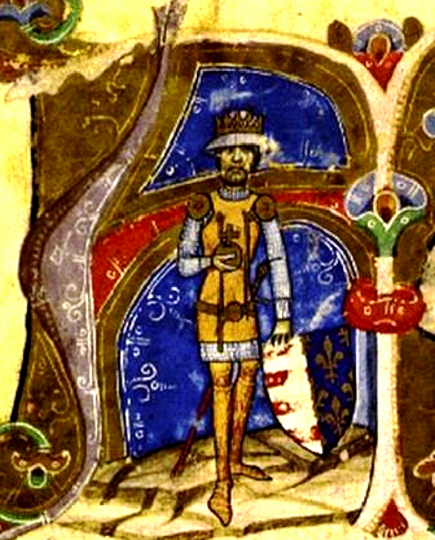 Charles I of Hungary